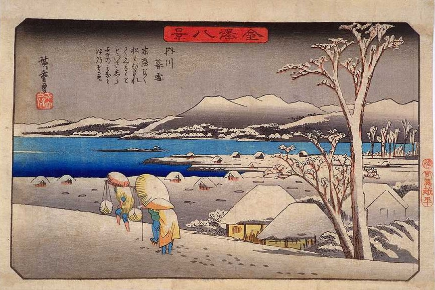 Kanazawahakkei Uchikawa no bosetsu